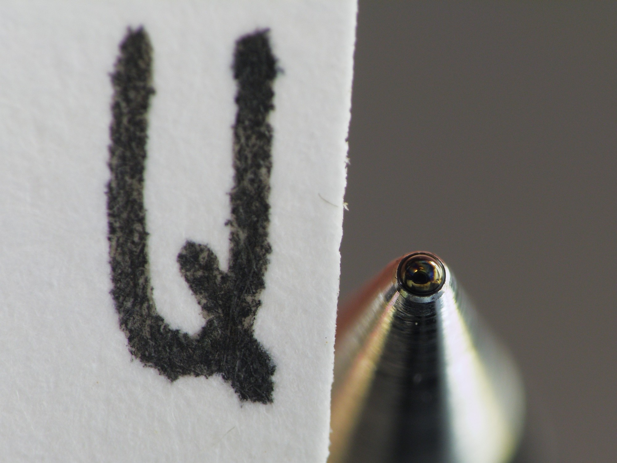 Close up of a pen with Armenian letter Ա (Ayb) written with it.